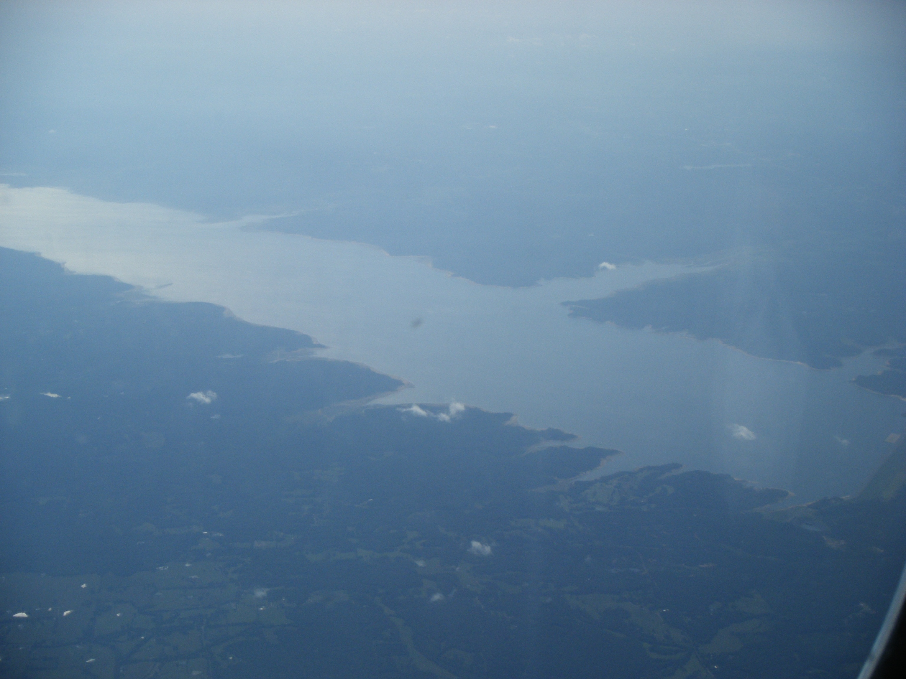 A view of Sardis Lake in Mississippi taken from an airplane